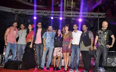 Hrithik Roshan, Farhan Akhtar, Katrina Kaif, Abhay Deol, Ehsaan Noorani, Zoya Akhtar, Kalki Koechlin, Ritesh Sidhwani, Shankar Mahadevan, Loy Mendonca at the audio release of 'Zindagi Na Milegi Dobara'